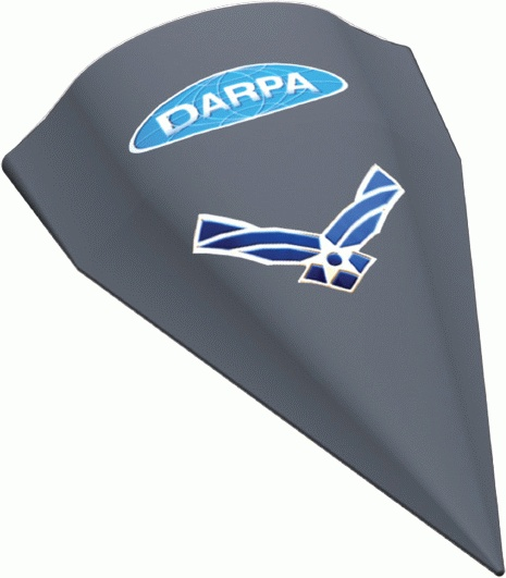 An illustration of DARPA's Falcon Hypersonic Technology Vehicle-2 (HTV-2) test aircraft.